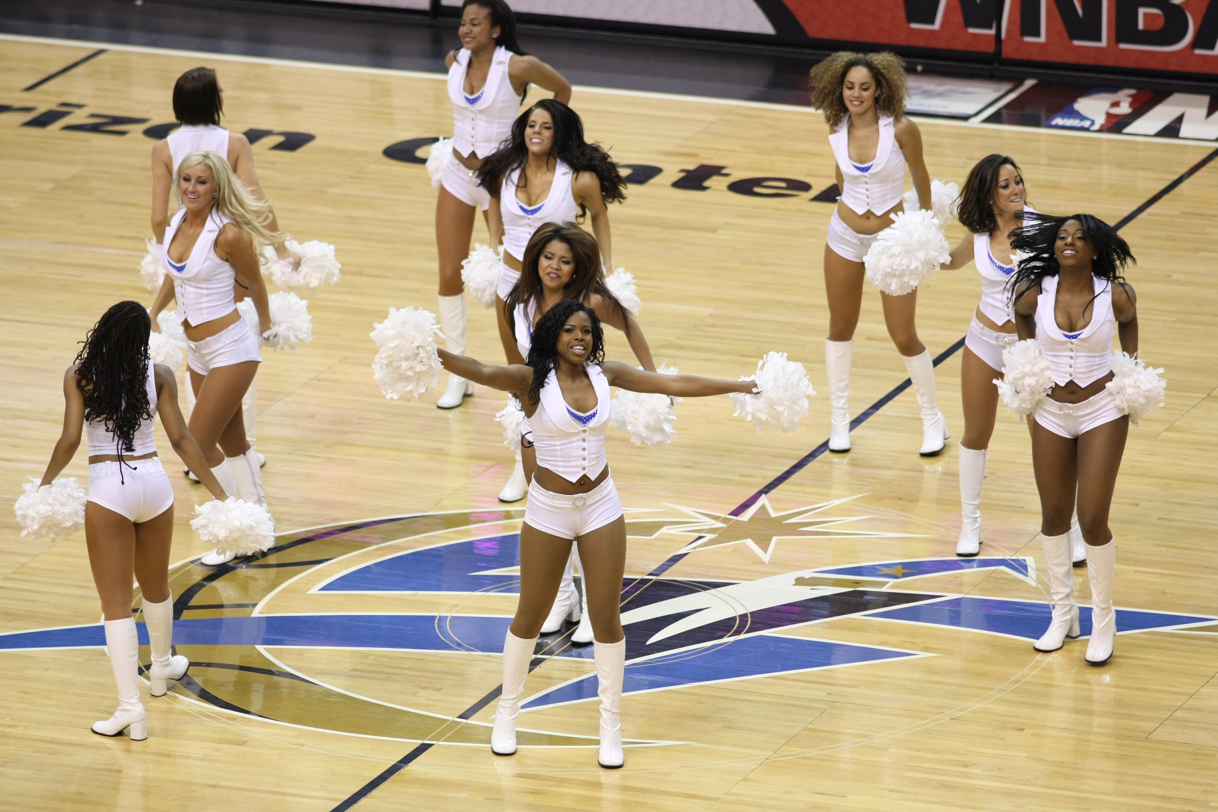 Washington Wizard Girls